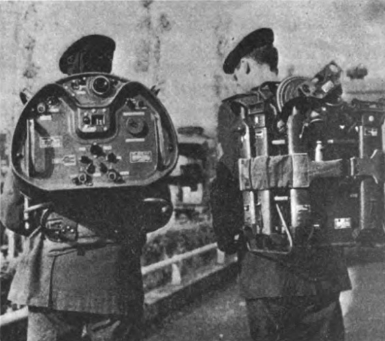 Portable French battlefield surveillance ground radar. Range : 5 km.